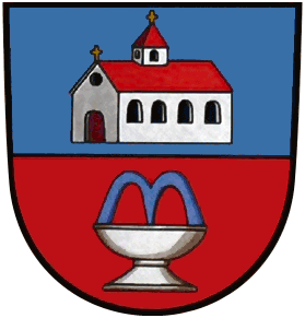 Unofficial coat of arms of Kostelec (part of town Zlín)